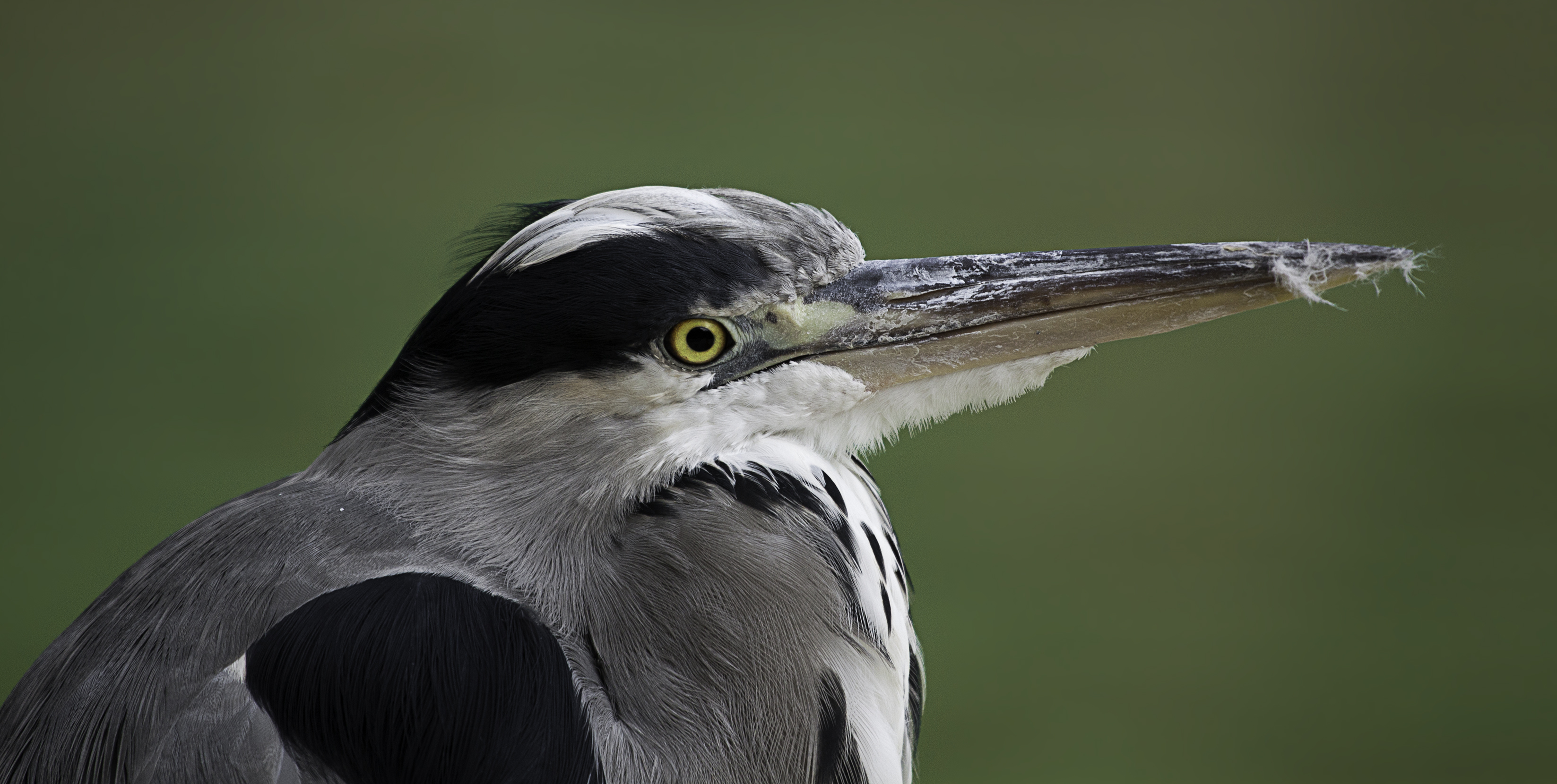 A wild Grey Heran (Ardea c. cinerea) taken in London Zoo